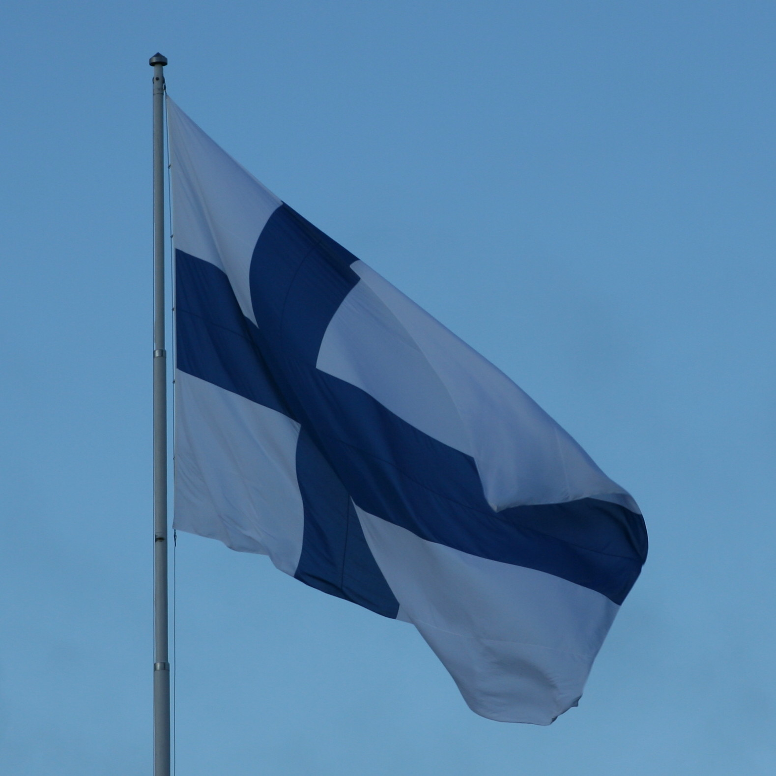 Finnish flag on independence day 2011, Tähtitorninmäki, Helsinki, Finland